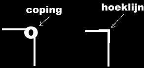 Stake park diagram: coping and corner.